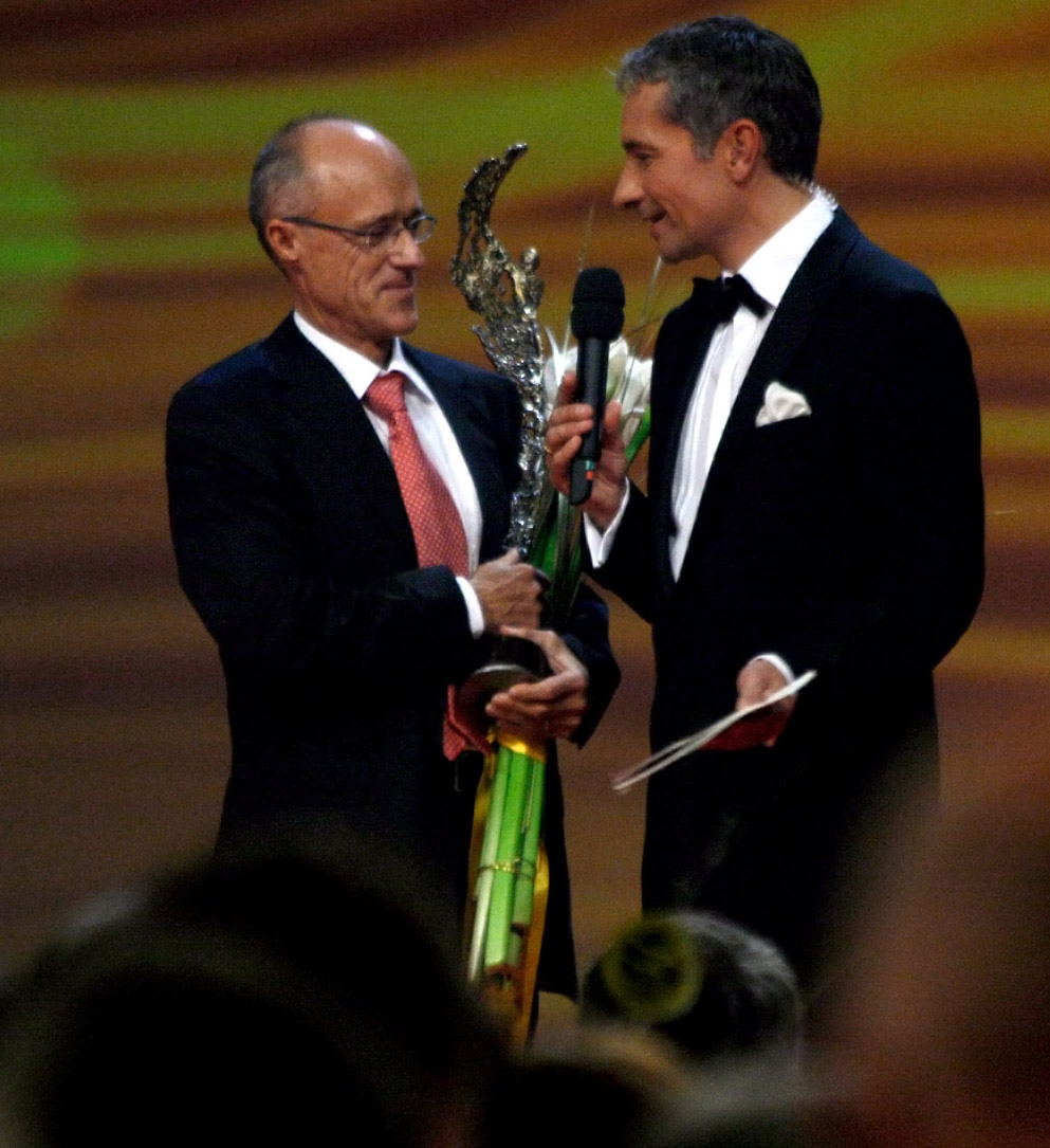 Toni Innauer with presenter Rainer Pariasek at the presentation of the Austrian Sportspersonalities of the Year 2010 (Eventhotel Pyramide in Vösendorf, Lower Austria).